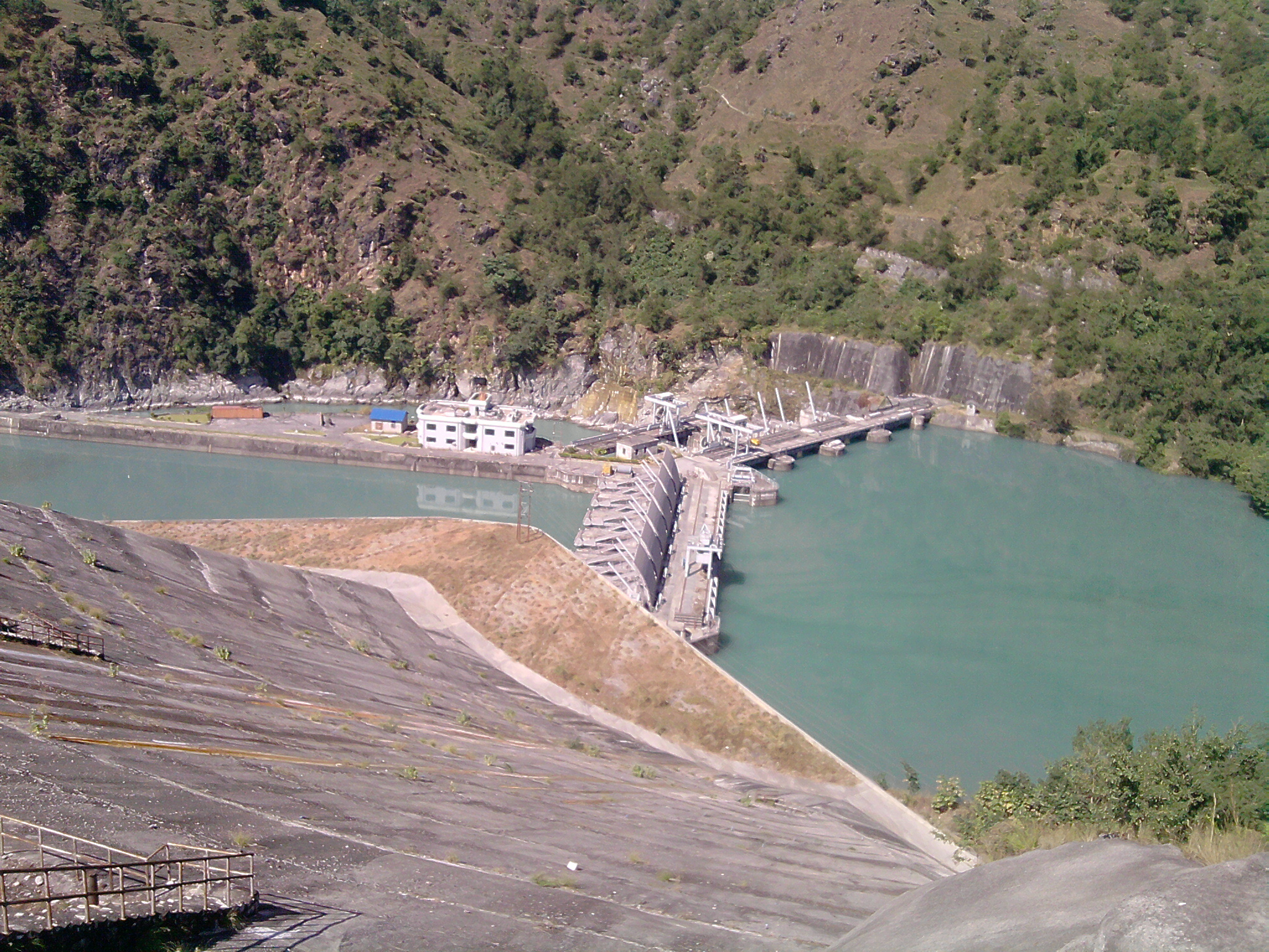 Kaligandaki Hydro power located in Nepal. Picture By: Milan GC